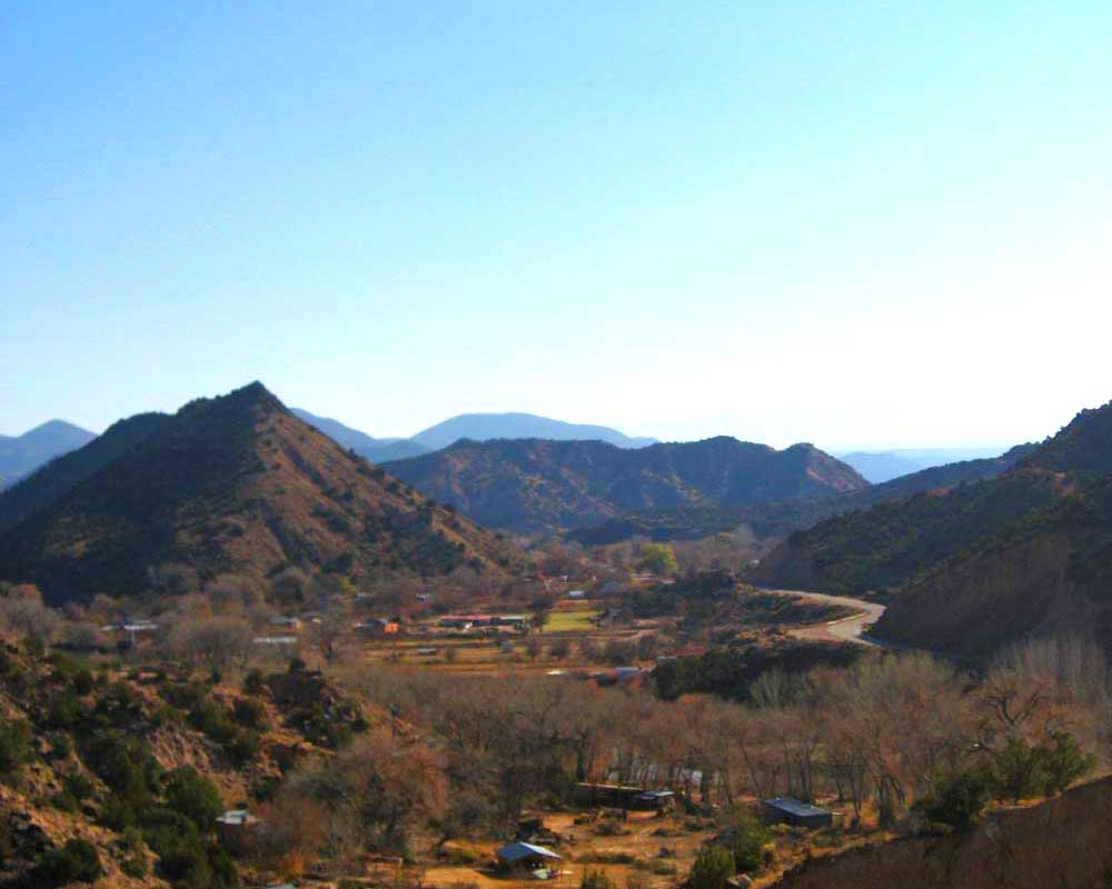 Photo showing mesa near the meeting of the Rio Grande and the Embudo River, New Mexico USA